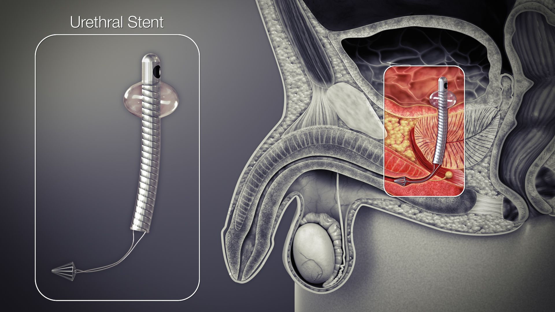 3D Medical Animation still shot of urethral stent inside the urethra